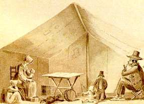 Interior of a trekboer tent in Griqualand